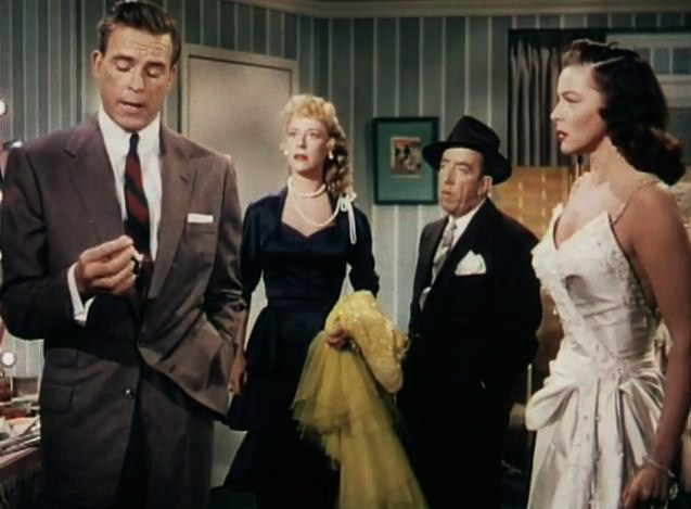 L. to R. : Scott Brady, Mitzi Green, Wally Vernon & Marguerite Chapman in Bloodhounds of Broadway - trailer (cropped screenshot)